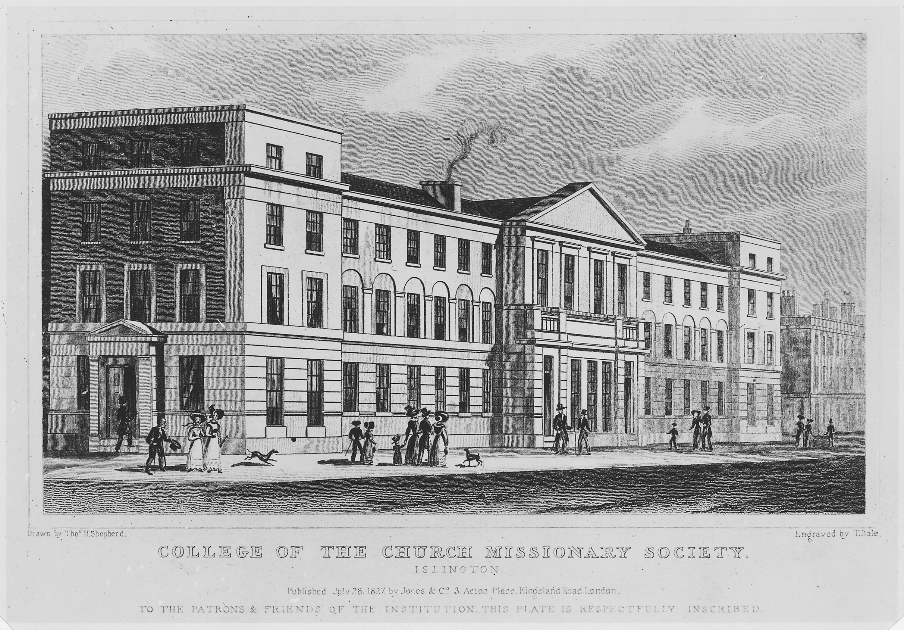 Scope and content: Enclosed with copy of accompying letter in envelope addressed H.D. Robbins, postmarked London--July 28, 1933.